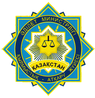 The coat of arms of the Ministry of Justice of Kazakhstan